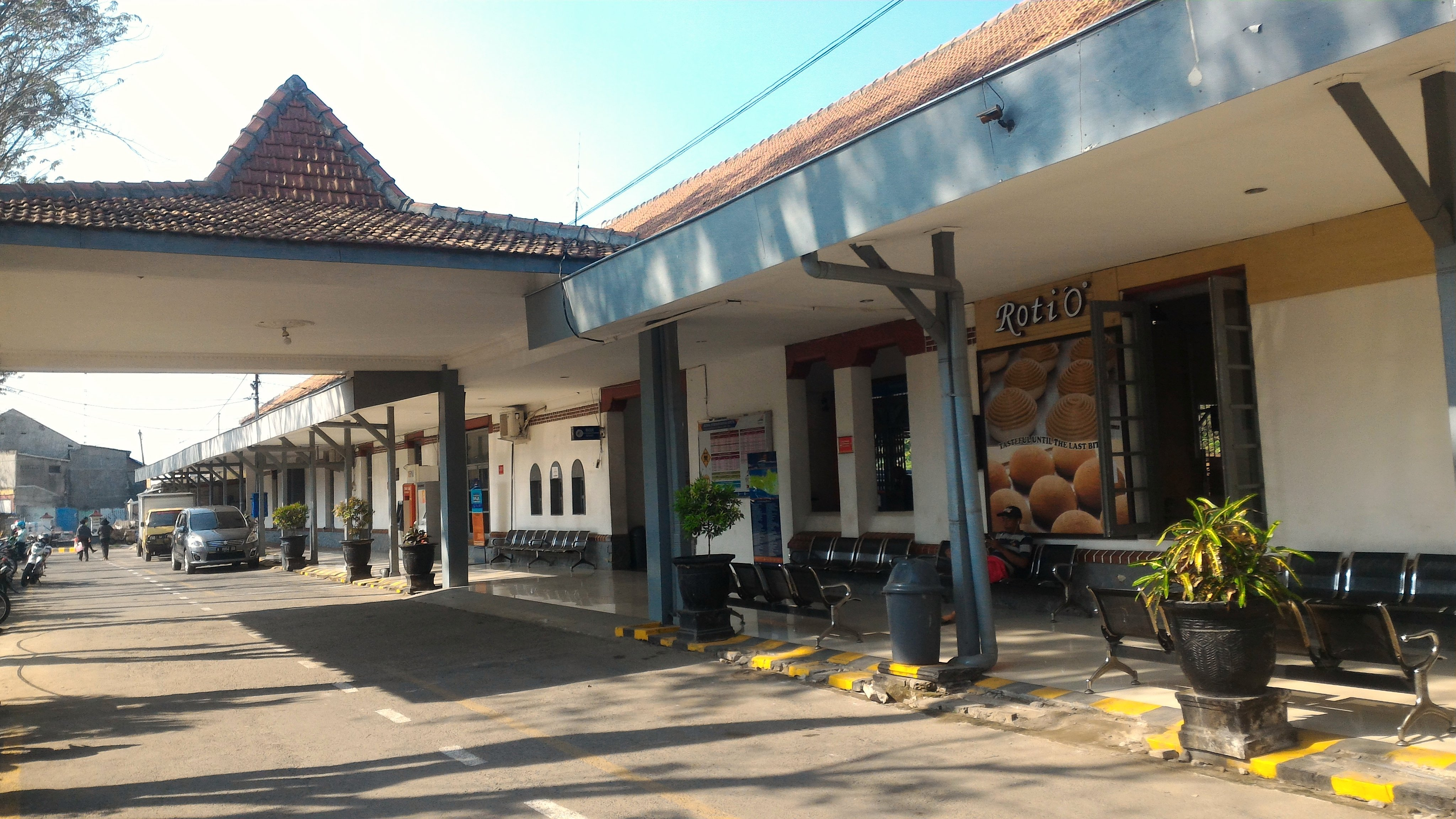 The drop-off area of Bojonegoro railway station